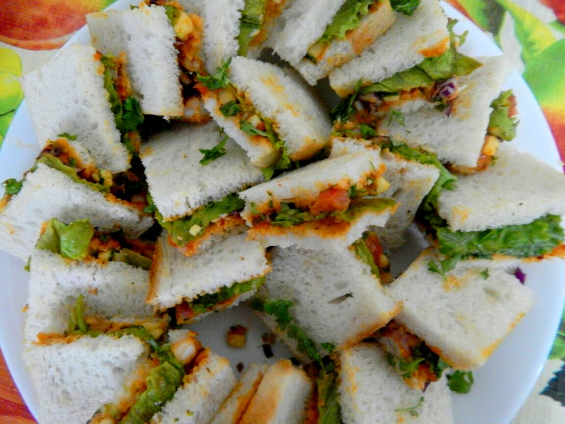 vegetables, yogurt and coriander chutney sandwiches alongwith vegetables and lettuce